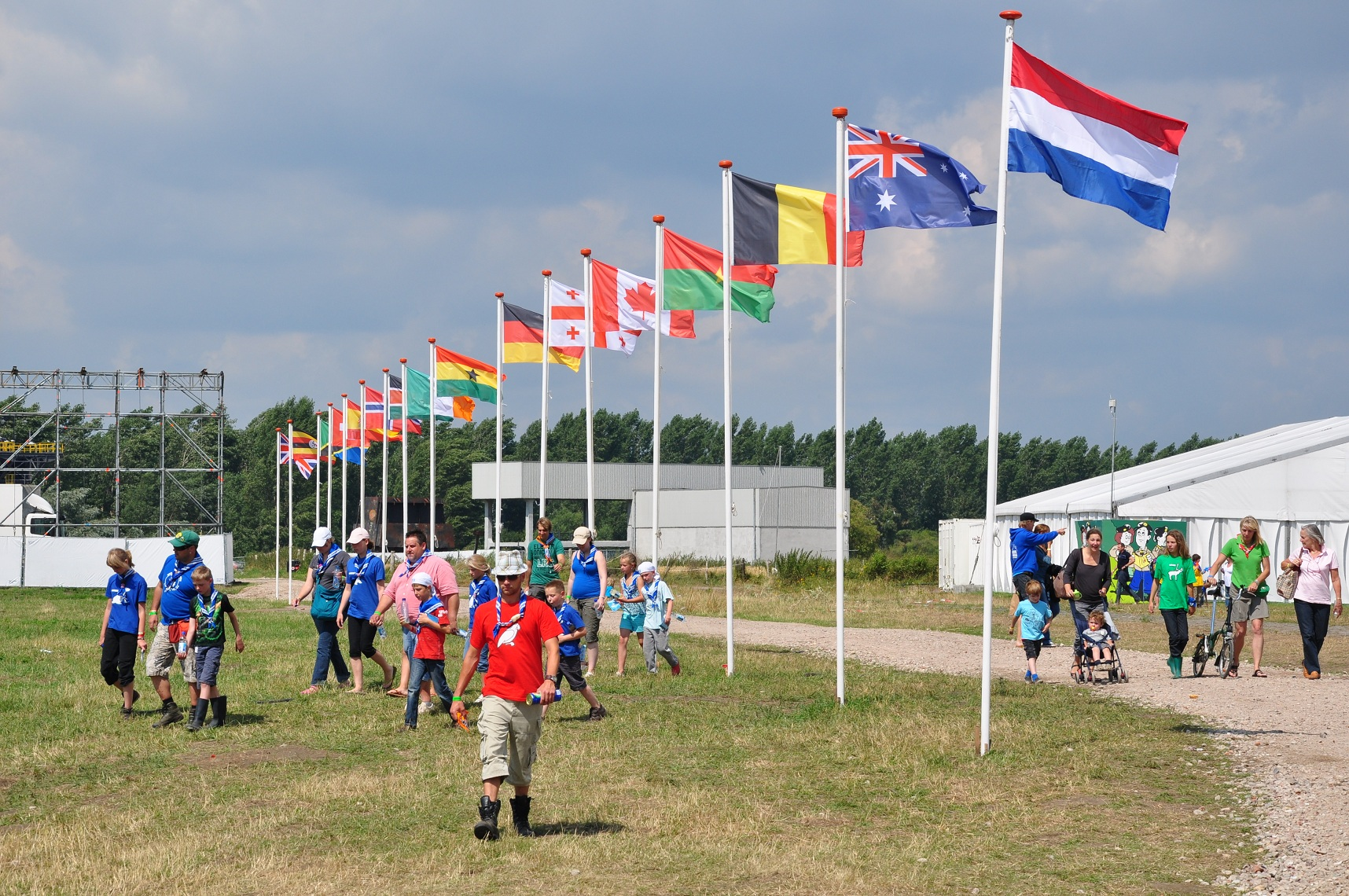 The "Jubilee Jamboree" organised in Roermond (Netherlands) in 2010 at the occasion of 100 years of Dutch scouting ("JubJam100") was an international event. These flags show the nationalities of other scouting groups present.